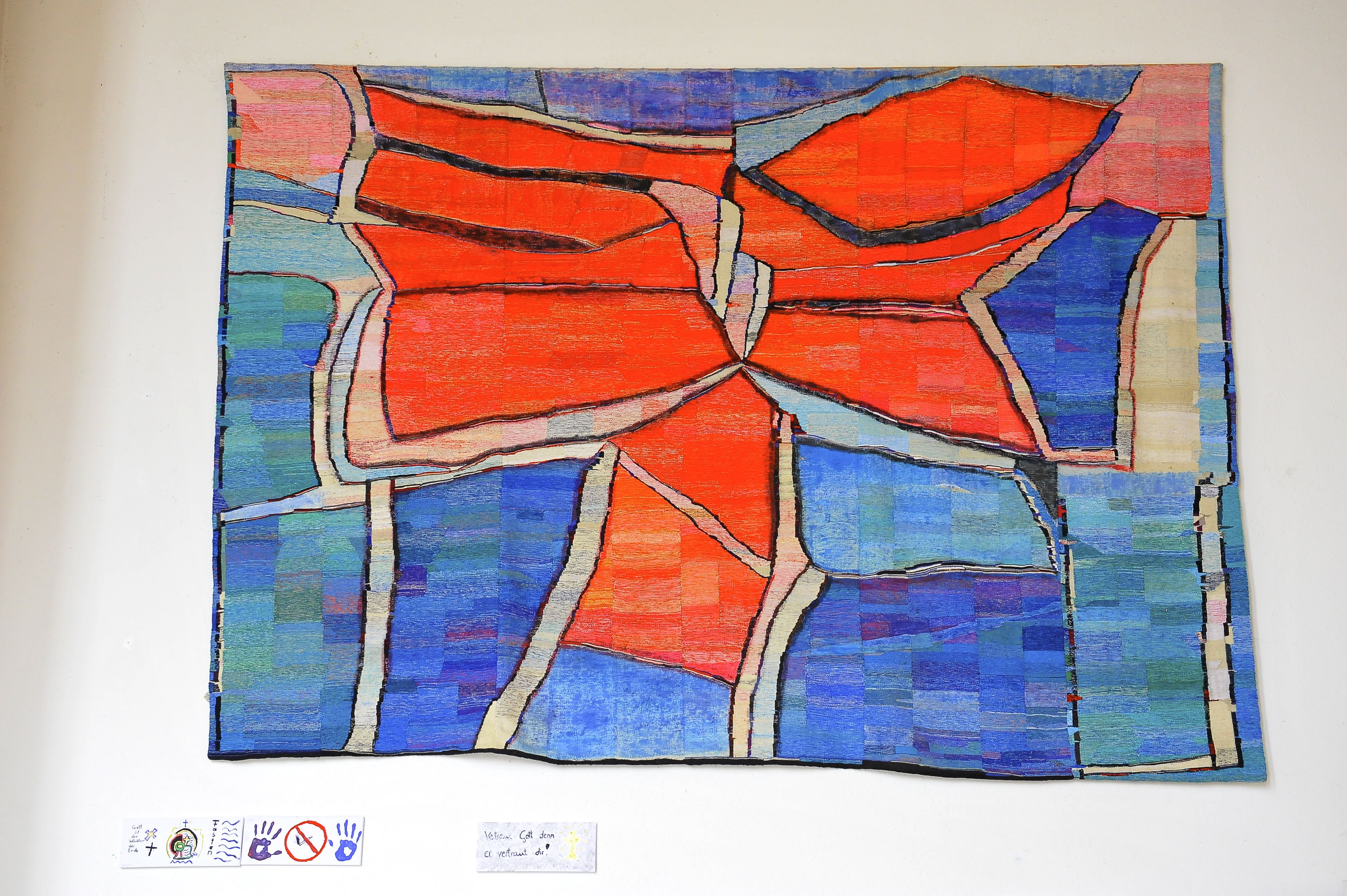 Wall carpet in the presbytery of the parish church “Saint George” in Krumpendorf am Wörthersee, district Klagenfurt Land, Carinthia / Austria / EU